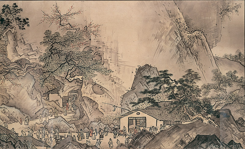 Landscapes of the Four Seasons (紙本墨画淡彩四季山水図, shihon bokuga tansai) by Sesshū Tōyō. Handscroll. Ink and light color on paper. Located in the Mōri Museum (毛利博物館), Hōfu, Yamaguchi, Japan